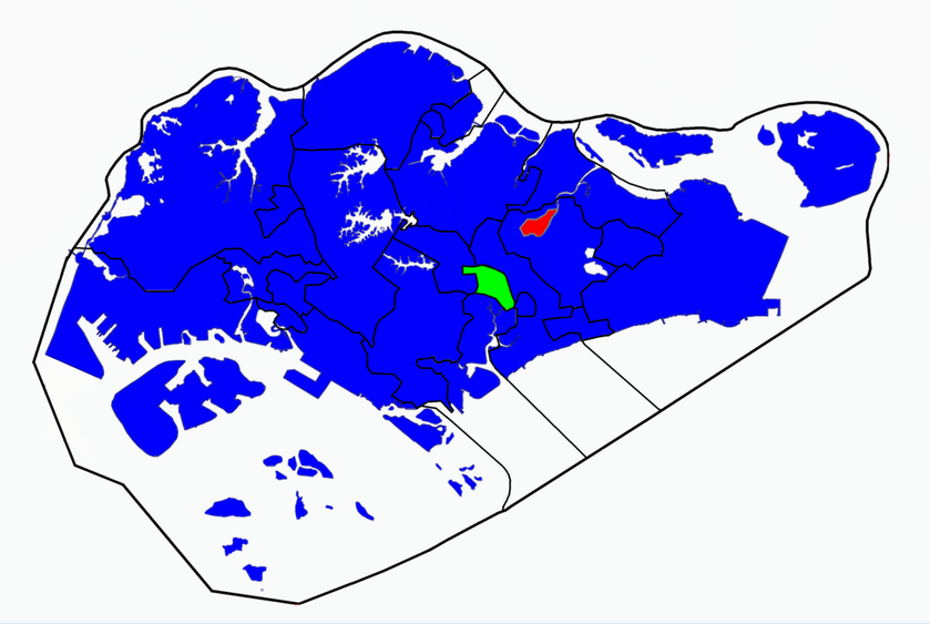 Created by Vsion References: Elections Department Singapore, URL accessed 3 March 2006. This map is for illustration only, the division boundaries may contain errors. Please consult Elections Department Singapore for official information.